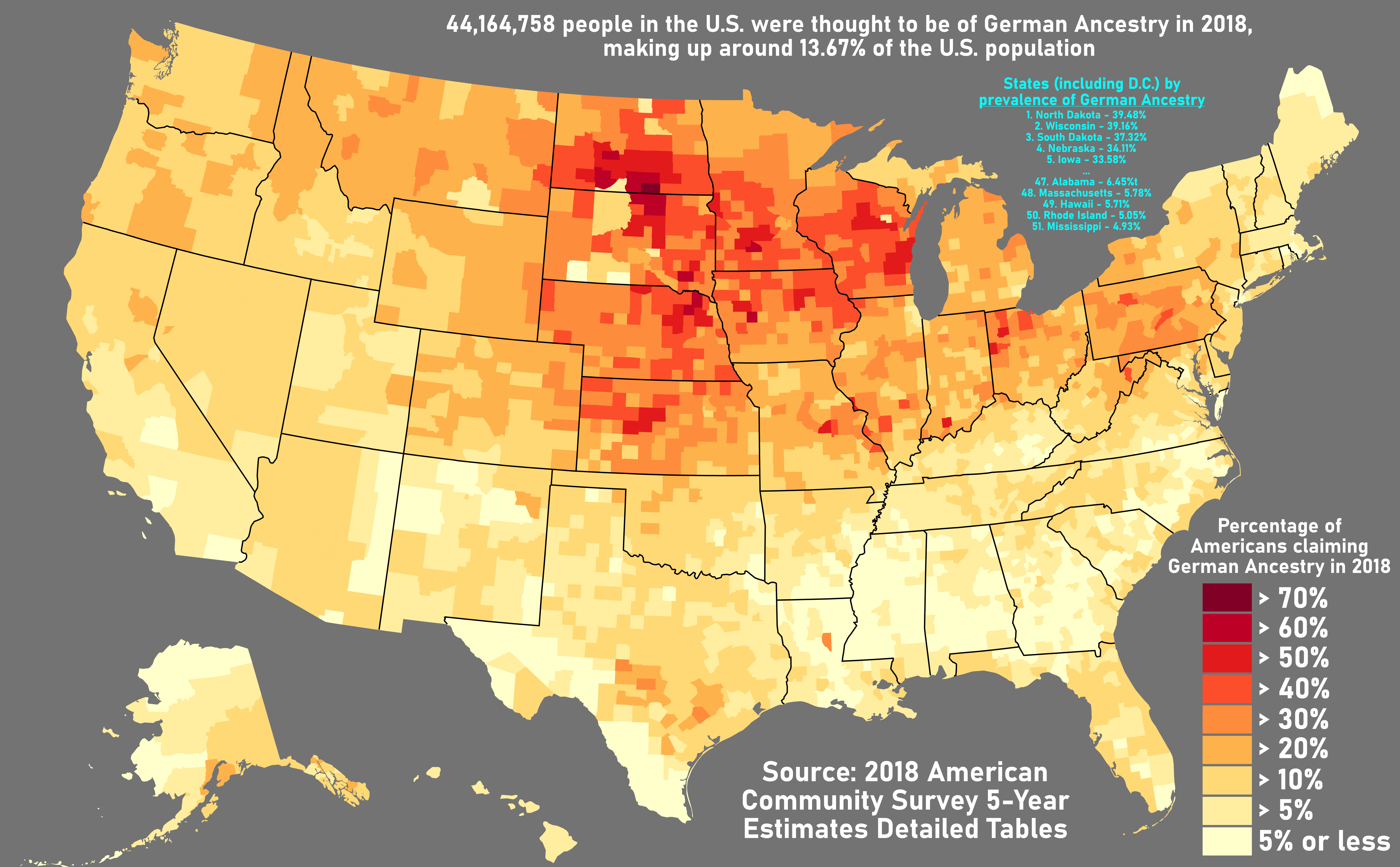 This is a map showing counties in the U.S.A. by the percentage of Americans they have claiming German Ancestry in 2018 according to the ACS's 5-year Estimates.